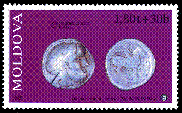 Getic silver coins (III-IInd cc. B. C.). The treasure was discovered in 1972 near the village Zabriceni